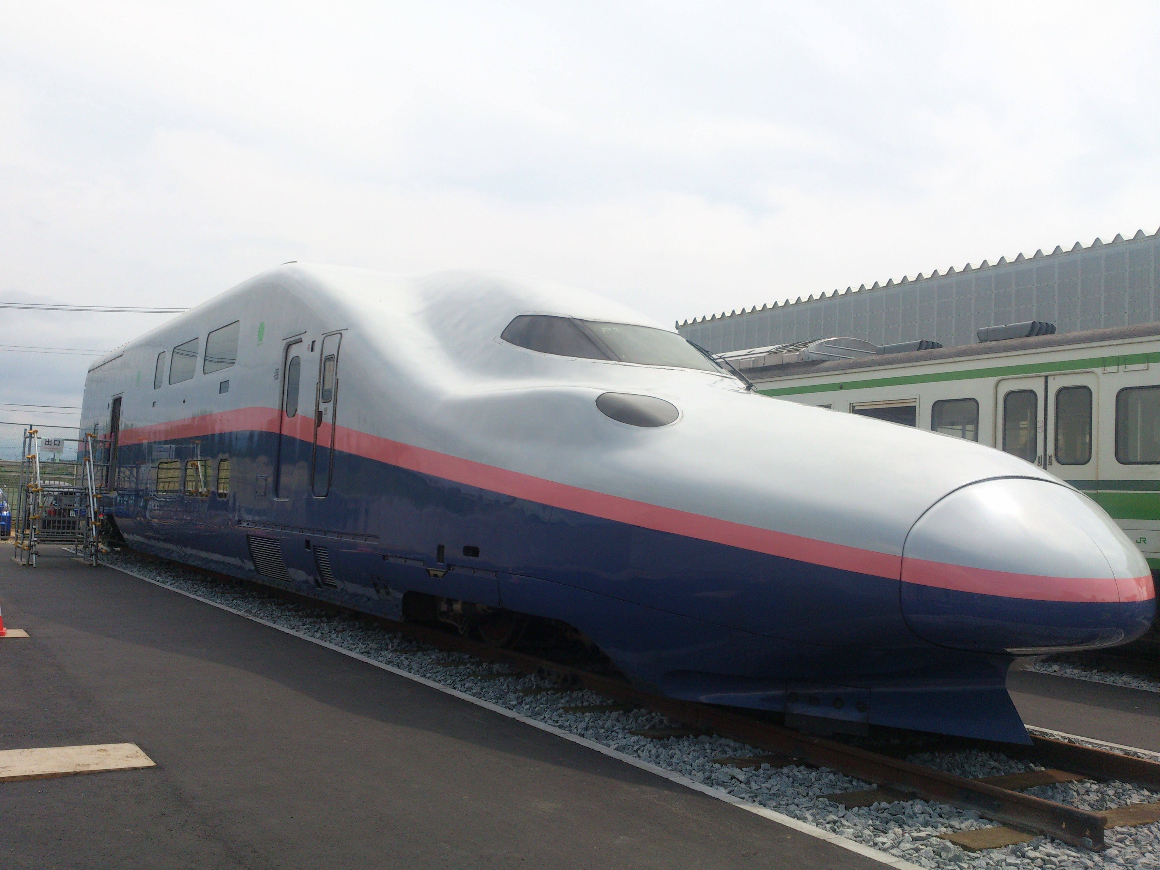 Preserved E4 series shinkansen car E444-1 from former set P1 at the Niigata City Niitsu Railway Museum